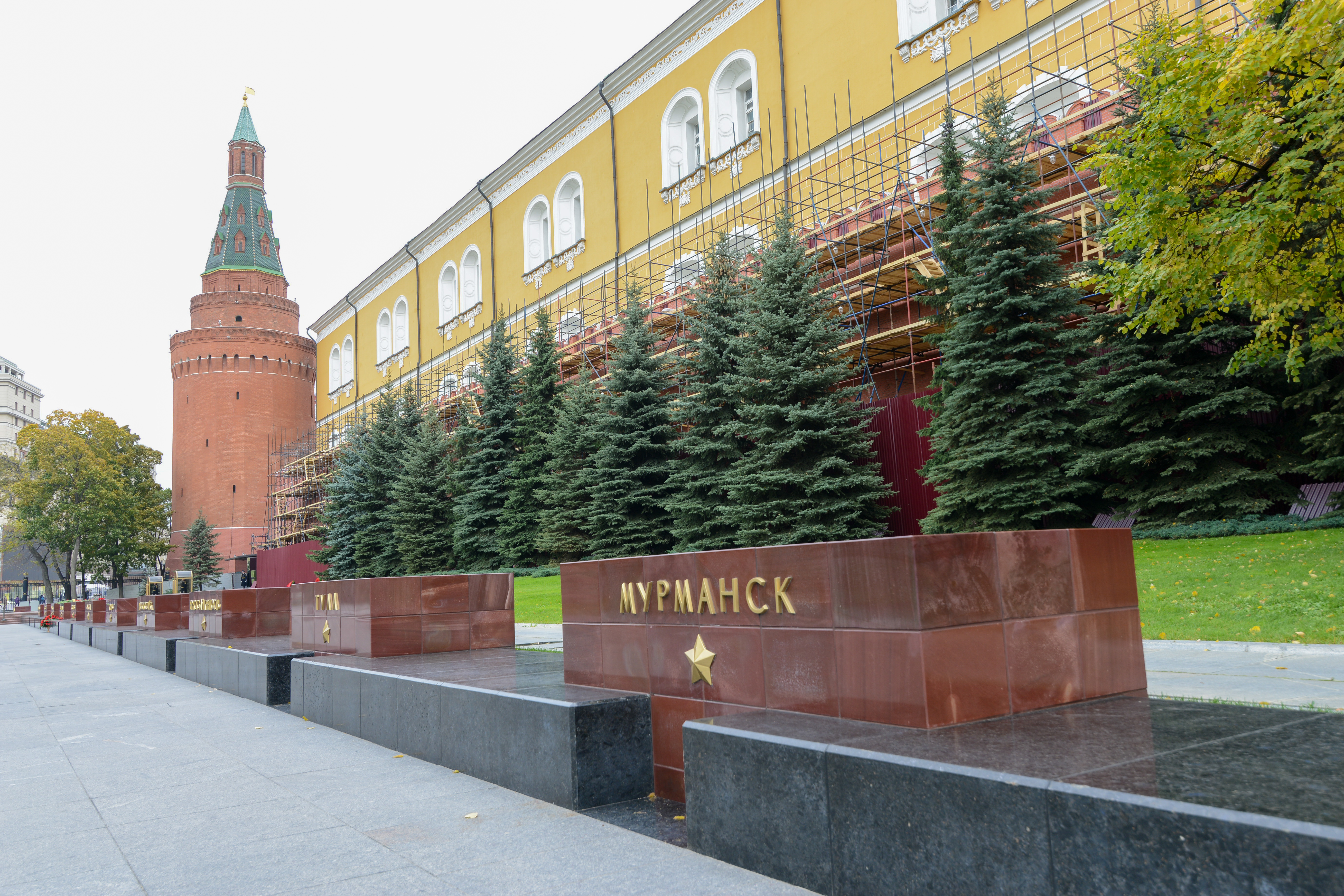 Hero City (Russian: город-герой, gorod-geroy, Ukrainian: місто-герой, misto-heroy) is a Soviet honorary title awarded for outstanding heroism during World War II (Eastern Front was known in the former Soviet Union as The Great Patriotic War). It was awarded to twelve cities of the Soviet Union. In addition the Brest Fortress was awarded an equivalent title of Hero Fortress. This symbolic distinction for a city corresponds to the individual distinction Hero of the Soviet Union. According to the statute, the hero city is issued the Order of Lenin, the Gold Star medal, and the certificate of the heroic deed (gramota) from the Presidium of the Supreme Soviet of the USSR. Also, the corresponding obelisk is installed in the city